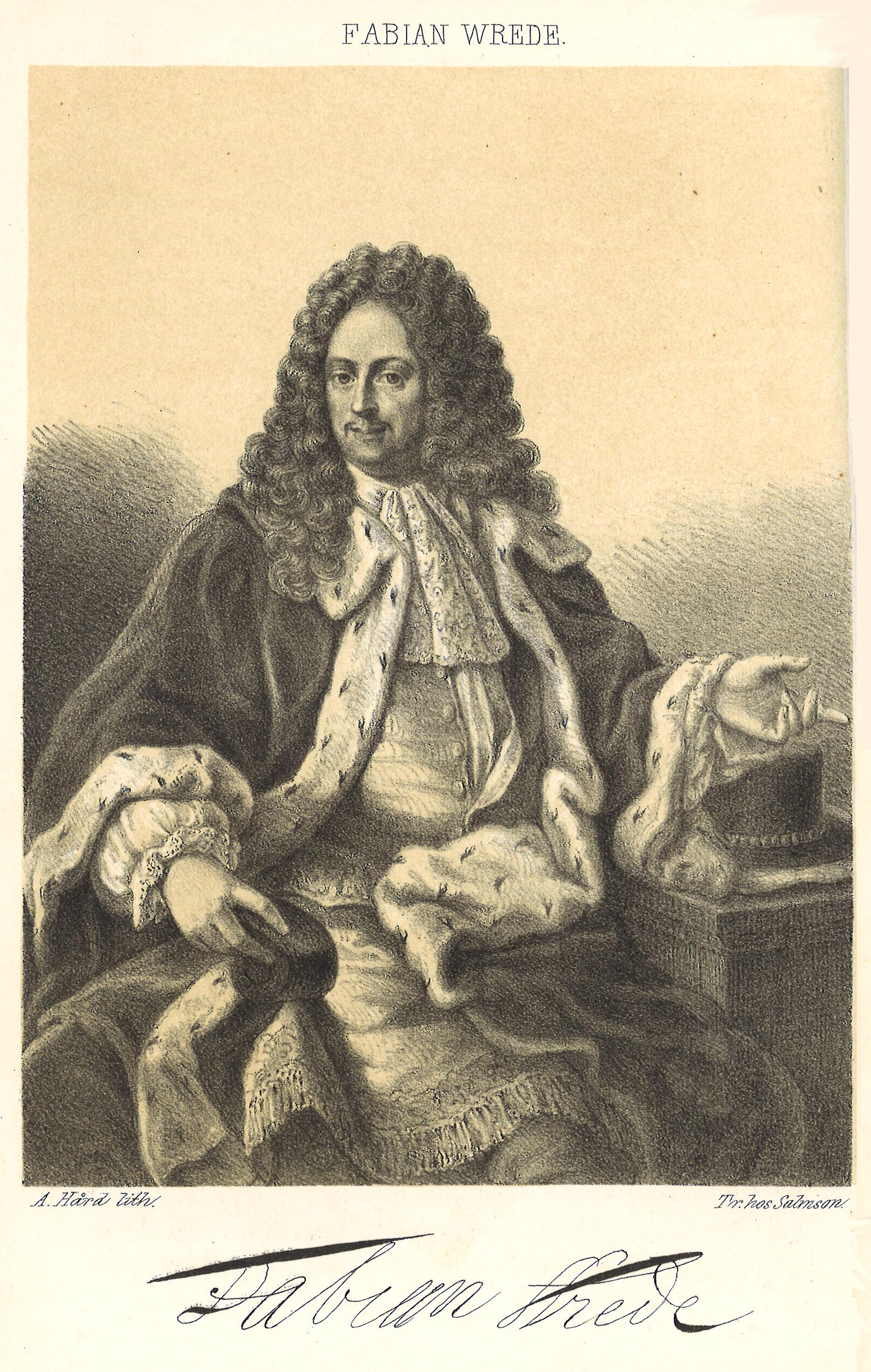 Fabian Wrede, Count of Östanå (1641-1712), swedish count, civil servant, senator and "lantmarskalk" (chairman of the estate of nobility).